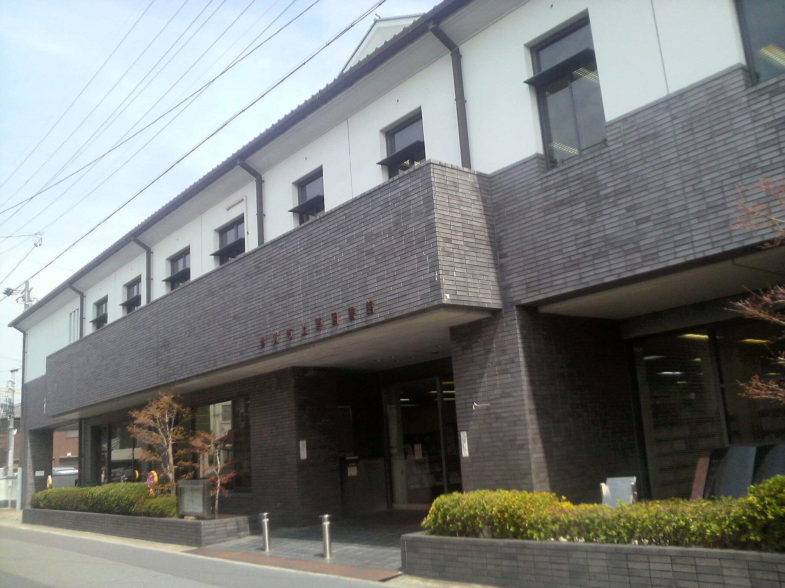 The "Iga City Ueno Library" in Iga City, Mie Prefecture, Japan.It was "Ueno Municipal Library" in October, 2004.